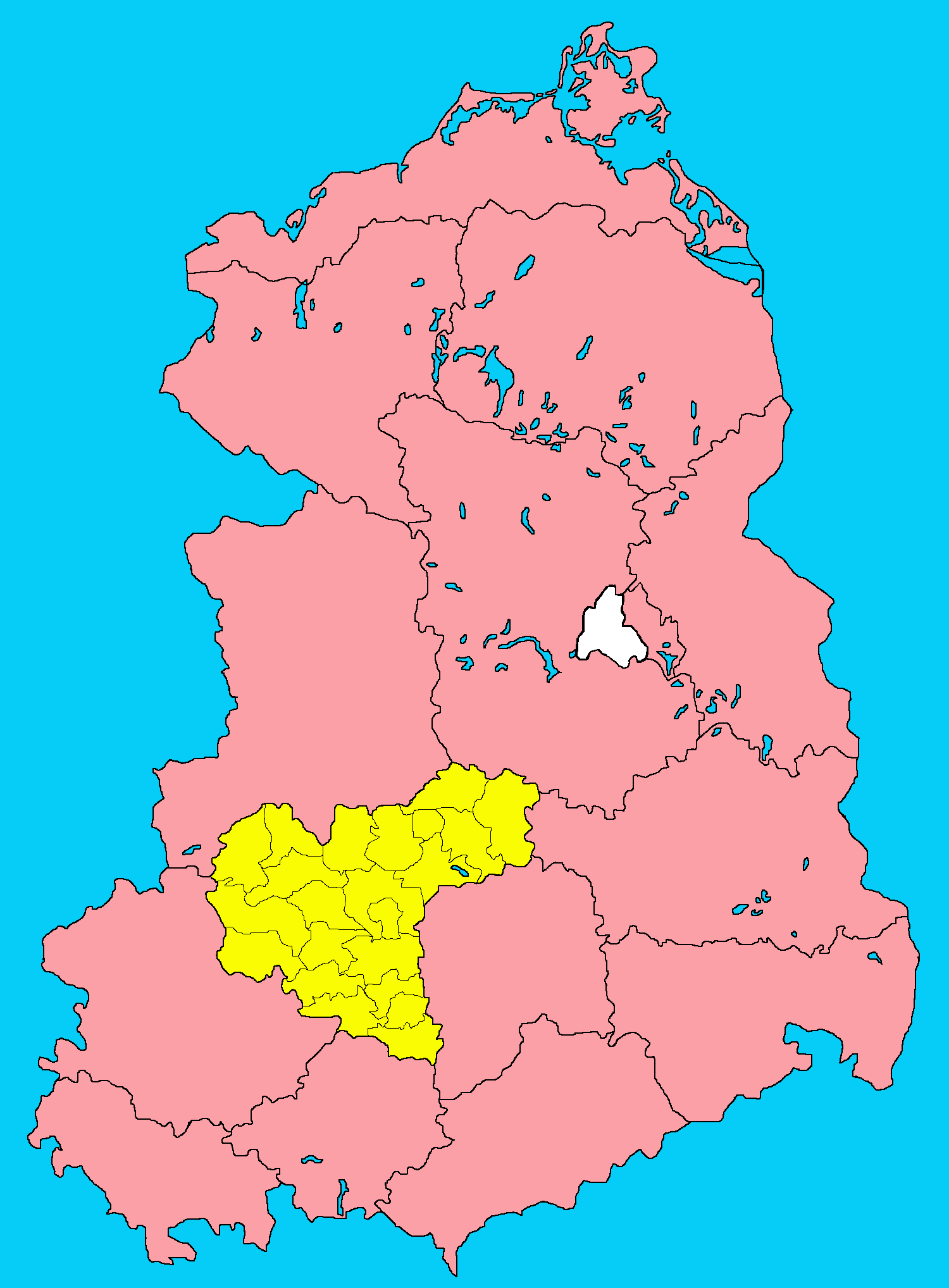 Map of the District of Halle in the German Democratic Republic (East Germany). The districts existed between 1952 and 1990. Most of the district's area belongs now to the State of Sachsen-Anhalt.